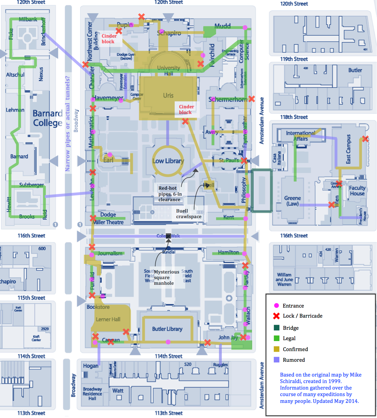 Unofficial map of Columbia University tunnel system